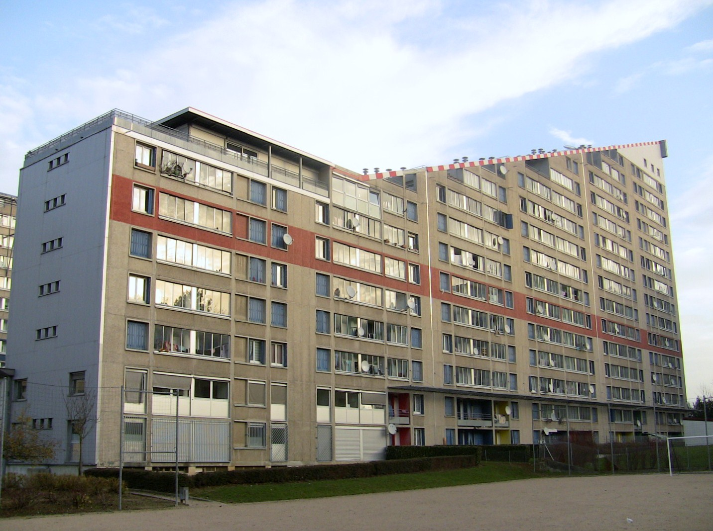 A building in the area of Grette-Butte, located in Besançon (Doubs, France)